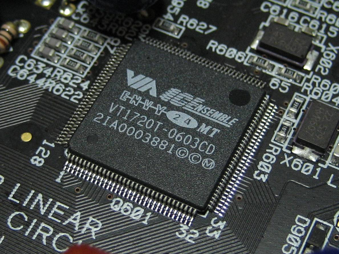 VIA Vinyl Envy24MT is a sound chip on Onkyo Wavio SE-90PCI.